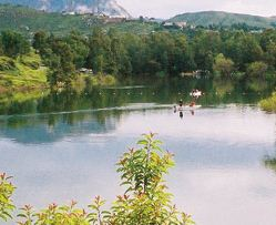 This is a picture of Lake Jennings.